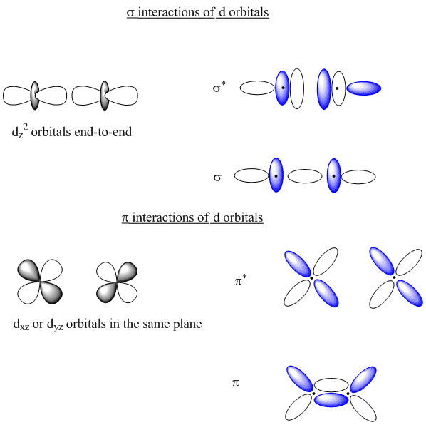 d orbital interactions